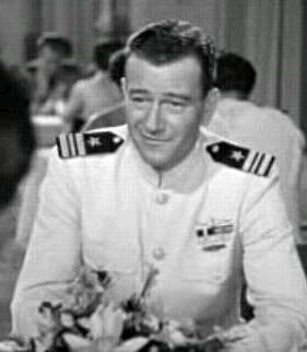 Screenshot of John Wayne from the film Operation Pacific